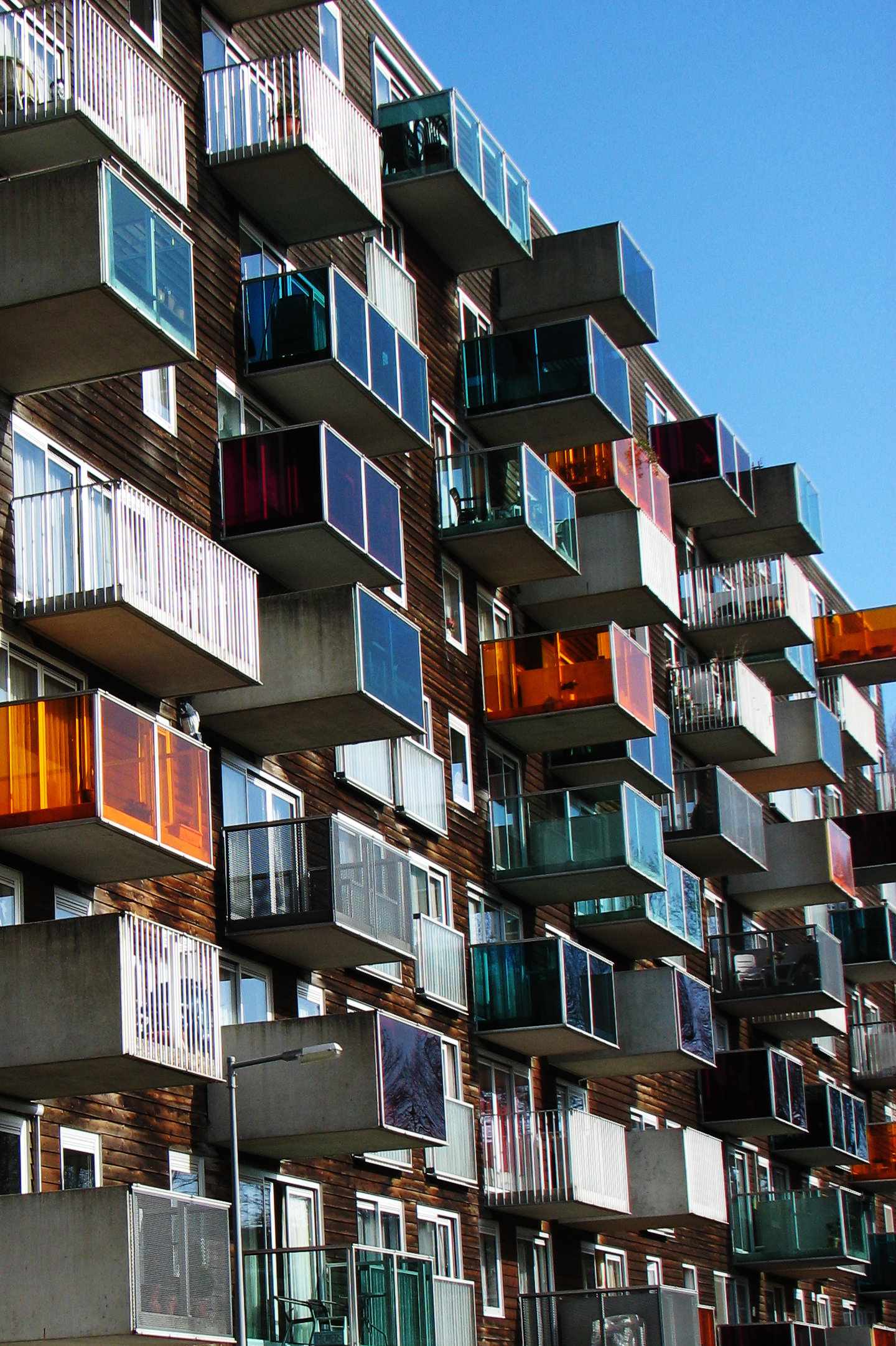 Designed by MVRDV 1998 for older people, the building uses cantilevers to get around strict height restrictions and a tough program